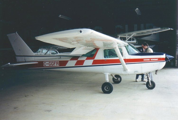 I took this photo of a Cessna A152 Aerobat st the Winnipeg Flying Club on 16 April 1987.